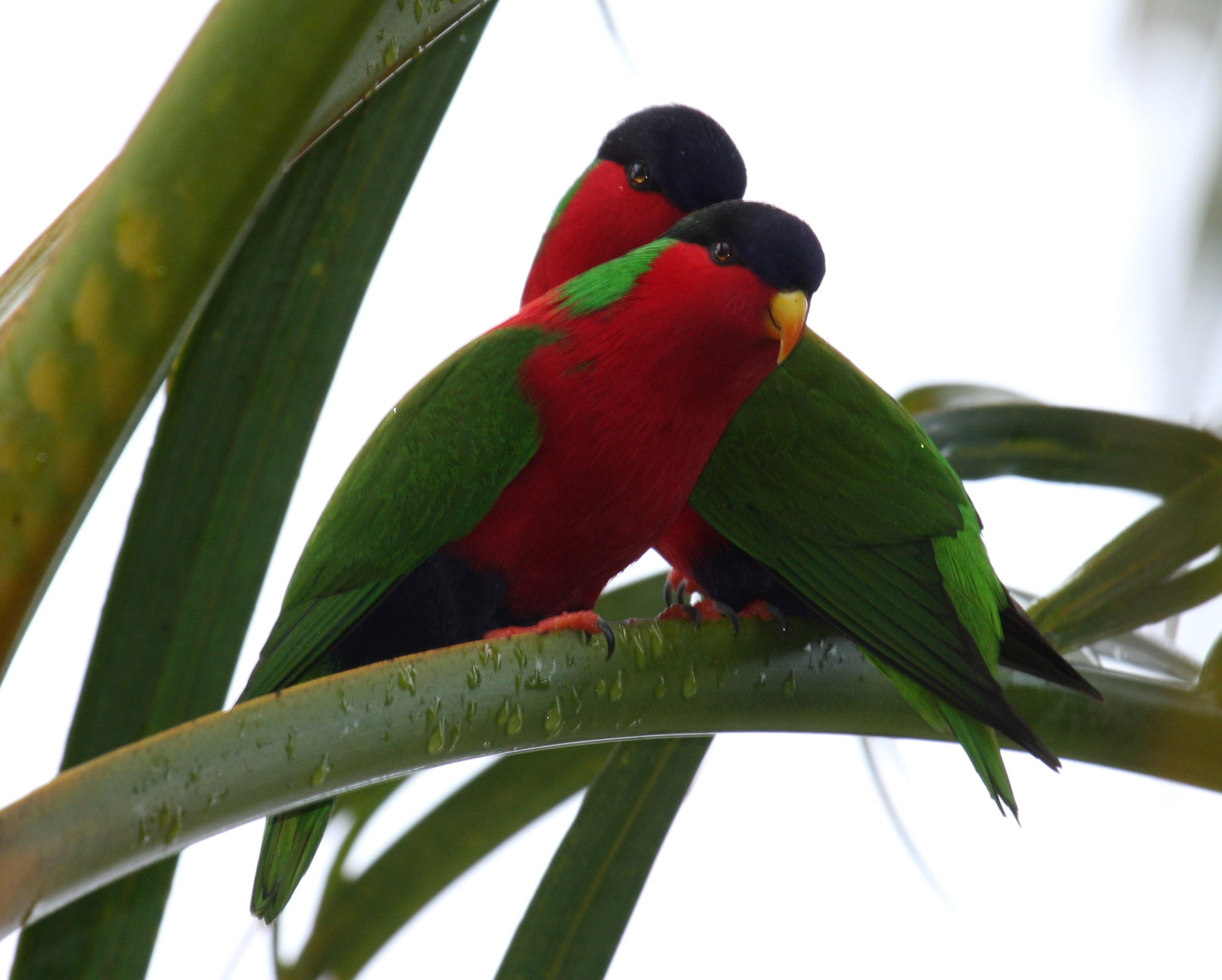 Two Collared Lories perching in a tree at Matei, Taveuni, Fiji Isles.